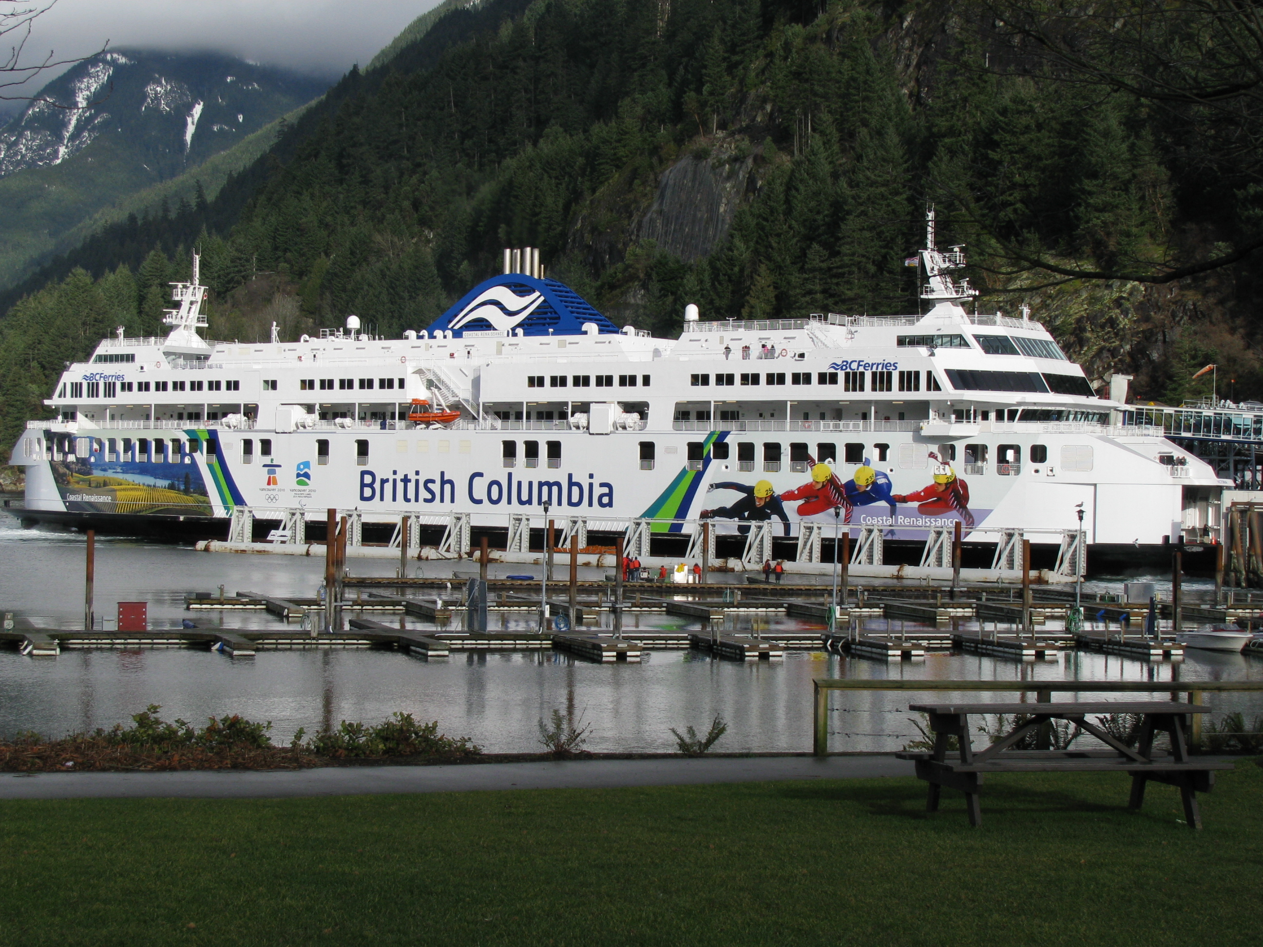 Coastal Renaissance Ferry entering Horseshoe Bay ferry terminal IMO Number: 9332755 MMSI Number: 316011407 Callsign: CFN4888 Length: 160 m Beam: 28 m